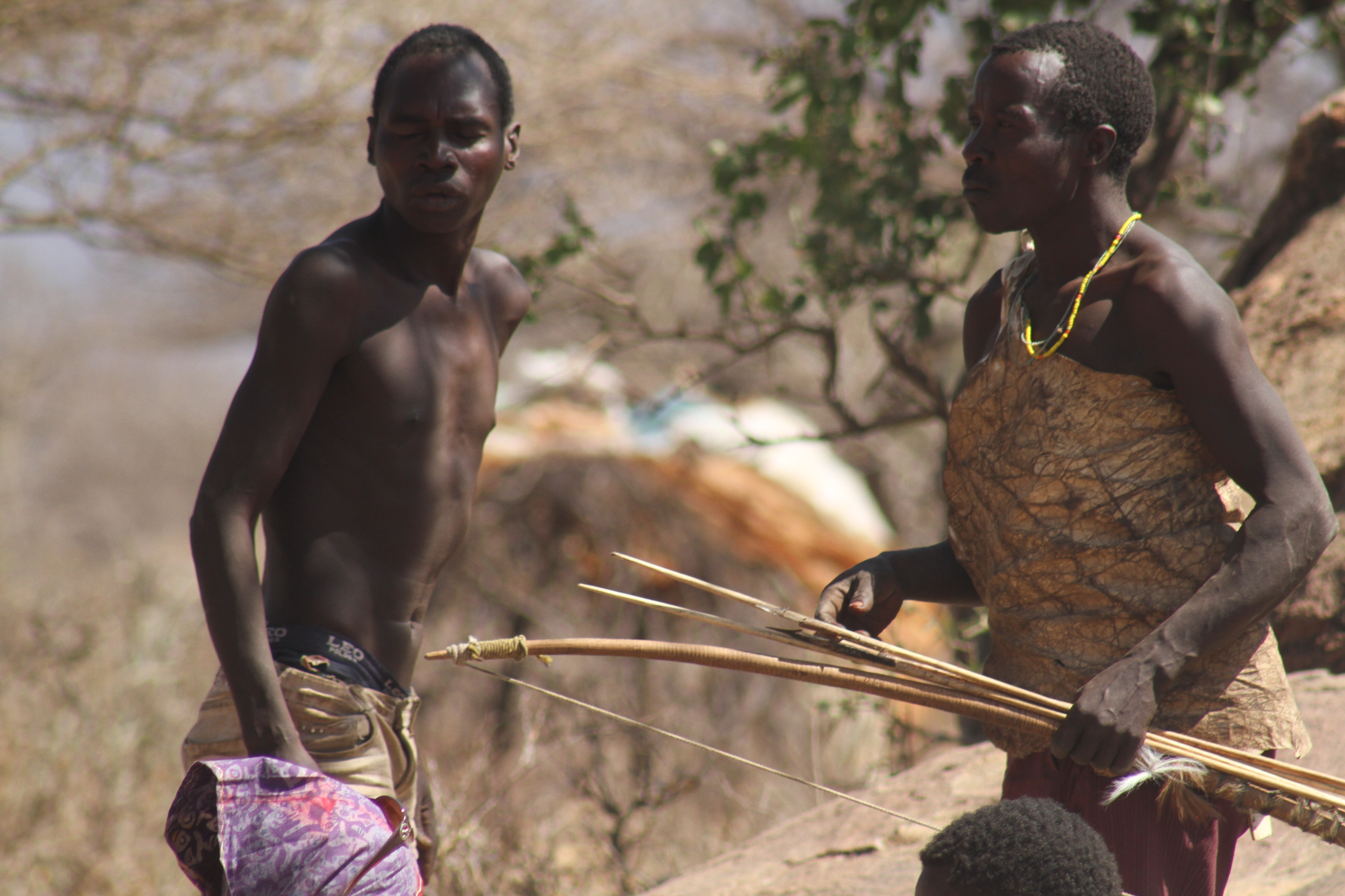 There will never be another way of surviving without hunting. This tribe of Hadzabe one of the remian famous and respected tribe among Tanzanian tribes they depend on hunting to survive. Meet the crew This is an image of Cultural Fashion or Adornment from Tanzania